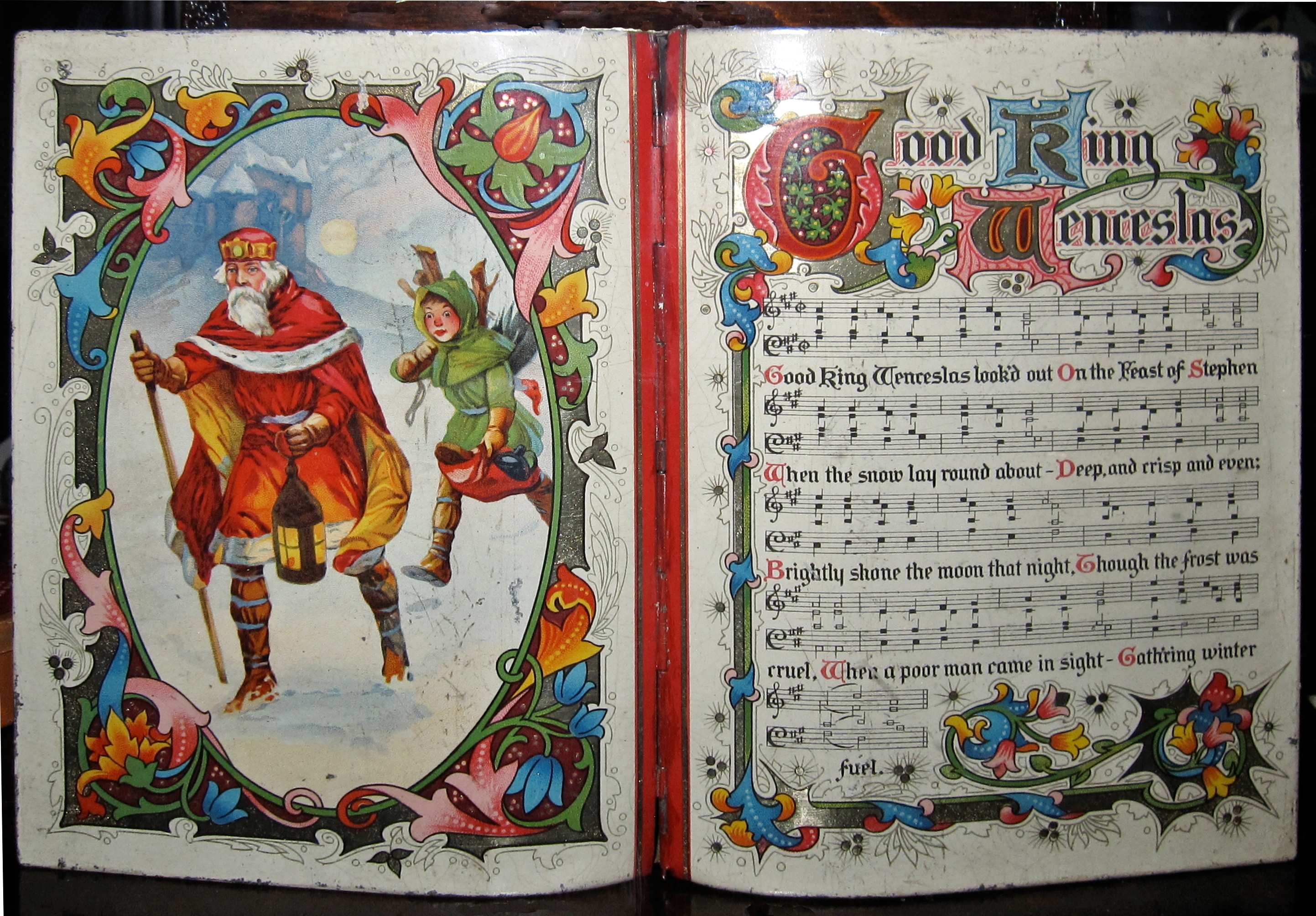 "King Wenceslas". Made by Hudson, Scott & Sons for Huntley & Palmers, 1913. Victoria and Albert Museum no. M.367-1983.